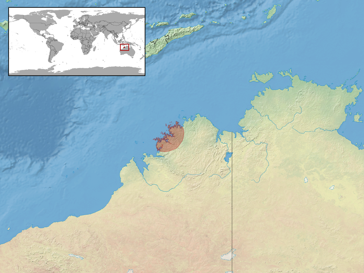 geographic distribution of Lerista walkeri